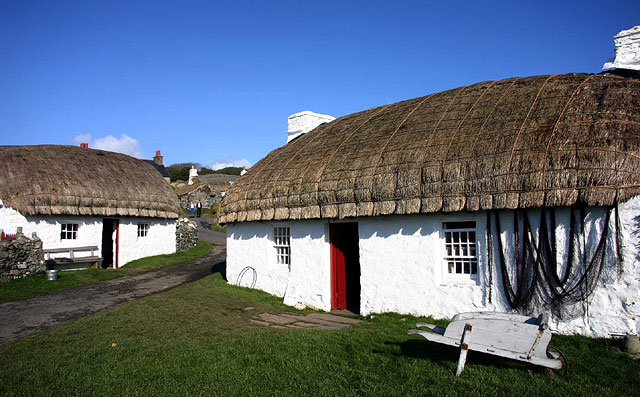 The living museum that was used as a film set ("Waking Ned") a few years ago. The picture shows Harry Kelly's cottage, which is preserved as it would have been a hundred years ago.